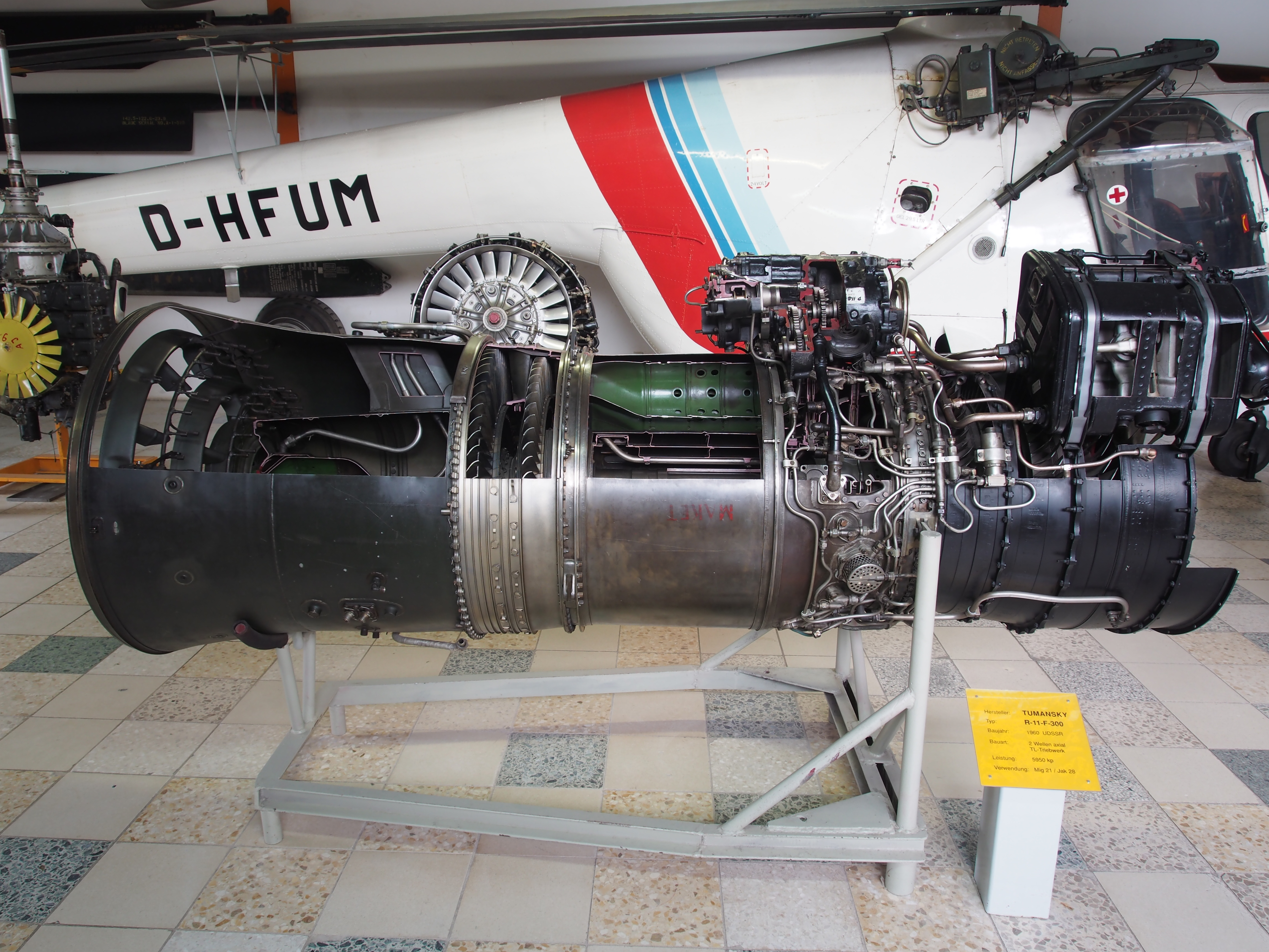 Photographed at Flugausstellung L.+P. Junior, Hermeskeil, Germany.